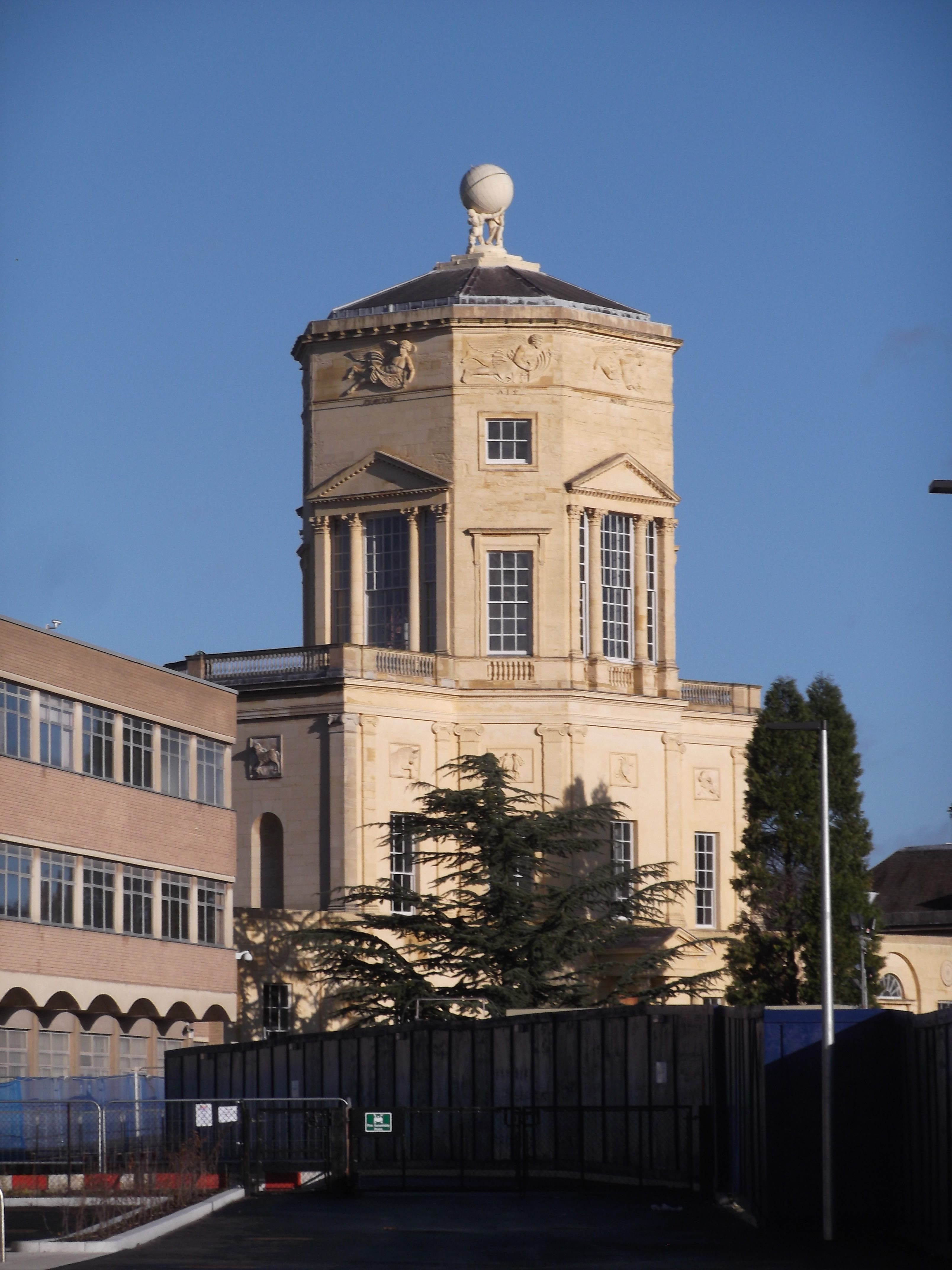 The Tower of the Winds, the old Radcliffe Observatory, now part of Green Templeton College, in Oxford, England.